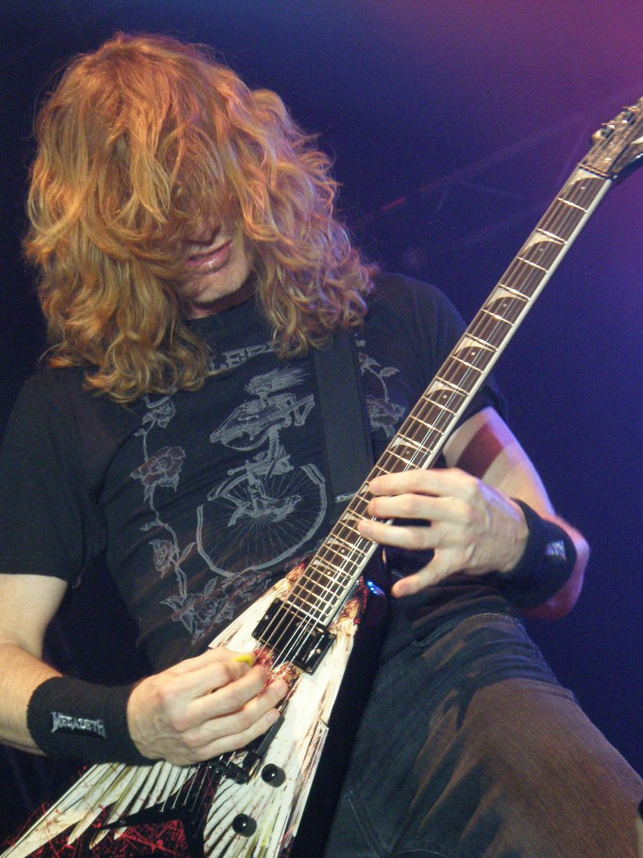 Dave Mustaine, Zlin, Czech Republic, on March 7, 2008